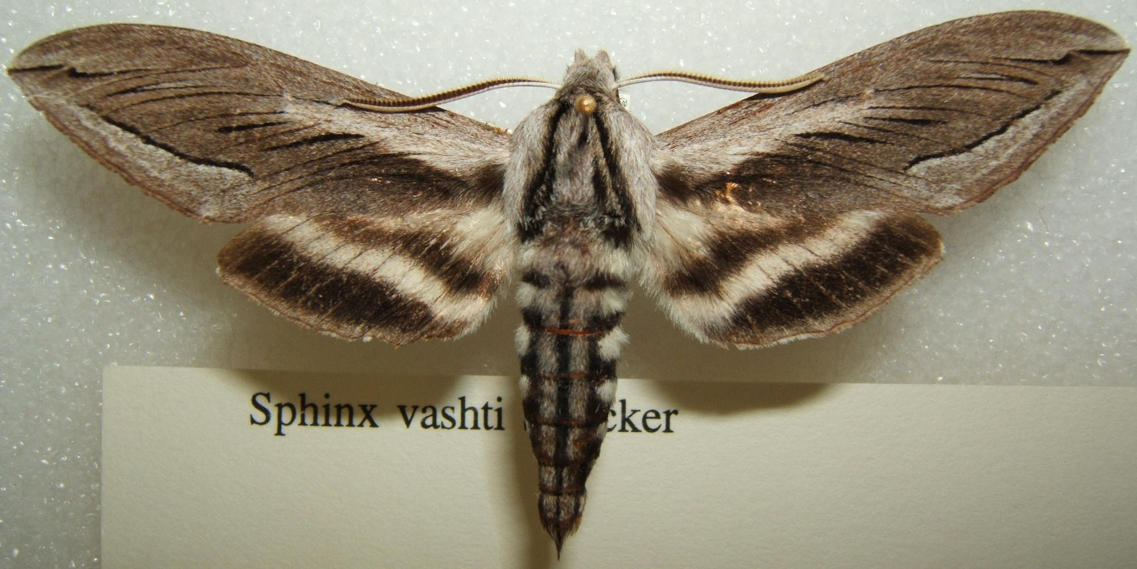 Sphinx vashti adult taken by Shawn Hanrahan at the Texas A&M University Insect Collection in College Station, Texas.